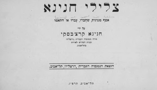 Book of songs by Hanina Kerchevsky, 1927